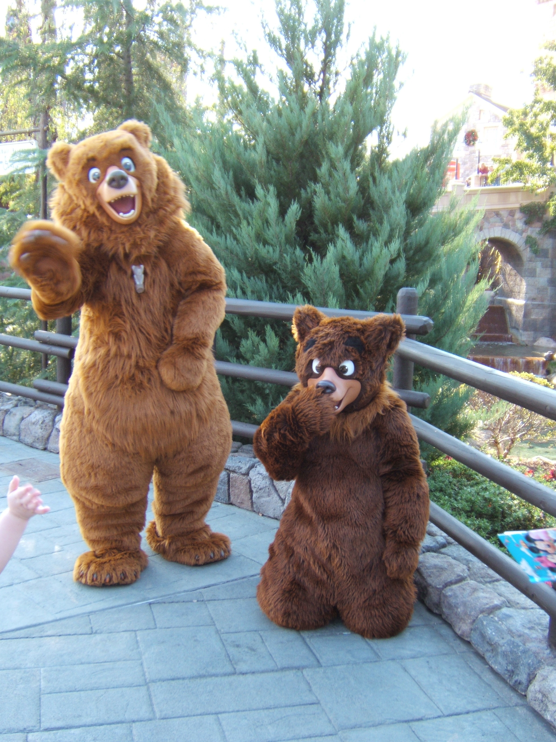 World Showcase, Disney World, ours bruns du pavillon du Canada.